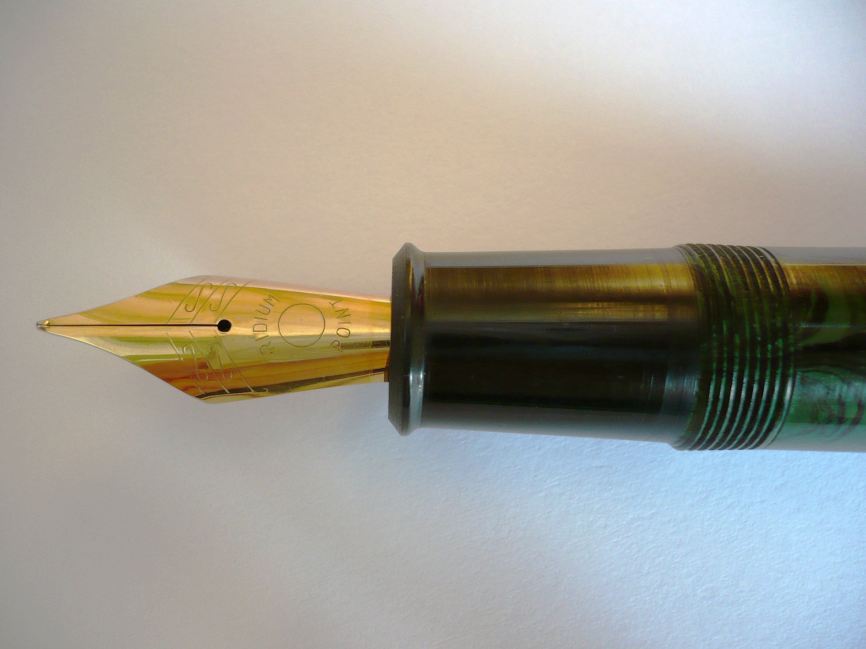 Gama Supreme Flat Top ebonite fountain pen custom fitted with an aftermarket larger nib made by Ambitious India. This is an example of a large or jumbo sized ebonite eye dropper fountain pen that was handmade in 2014 by Gem & Co pen specialists in Chennai, India. On the pen the tool marks from turning the pen out of green/black rippled and black ebonite rods are visible. The section and feed of the pen are also made out of ebonite. Dimensions: Length capped: 165 mm Length uncapped: 151.5 mm Length posted: 196.5 mm Cap length: 75.5 mm Cap diameter: 19 mm Cap breather hole(s): 1 hole for pressure equalization during uncapping Barrel length: 104 mm Barrel diameter: 17.3 mm Section length: 22 mm Section diameter: 15.5 mm tapers to 13.4 mm Feed diameter: 6.35 mm (¼ inch) Nib exposed length with the Ambitious Indian № 12 Iridium Point: 26.5 mm Ink capacity: 3.5 ml (usable volume for storing ink in the barrel) Barrel weight: 29 g (filled with ink) Cap weight: 13 g Total weight: 42 g (filled with ink) Turns to uncap: 5½ turns